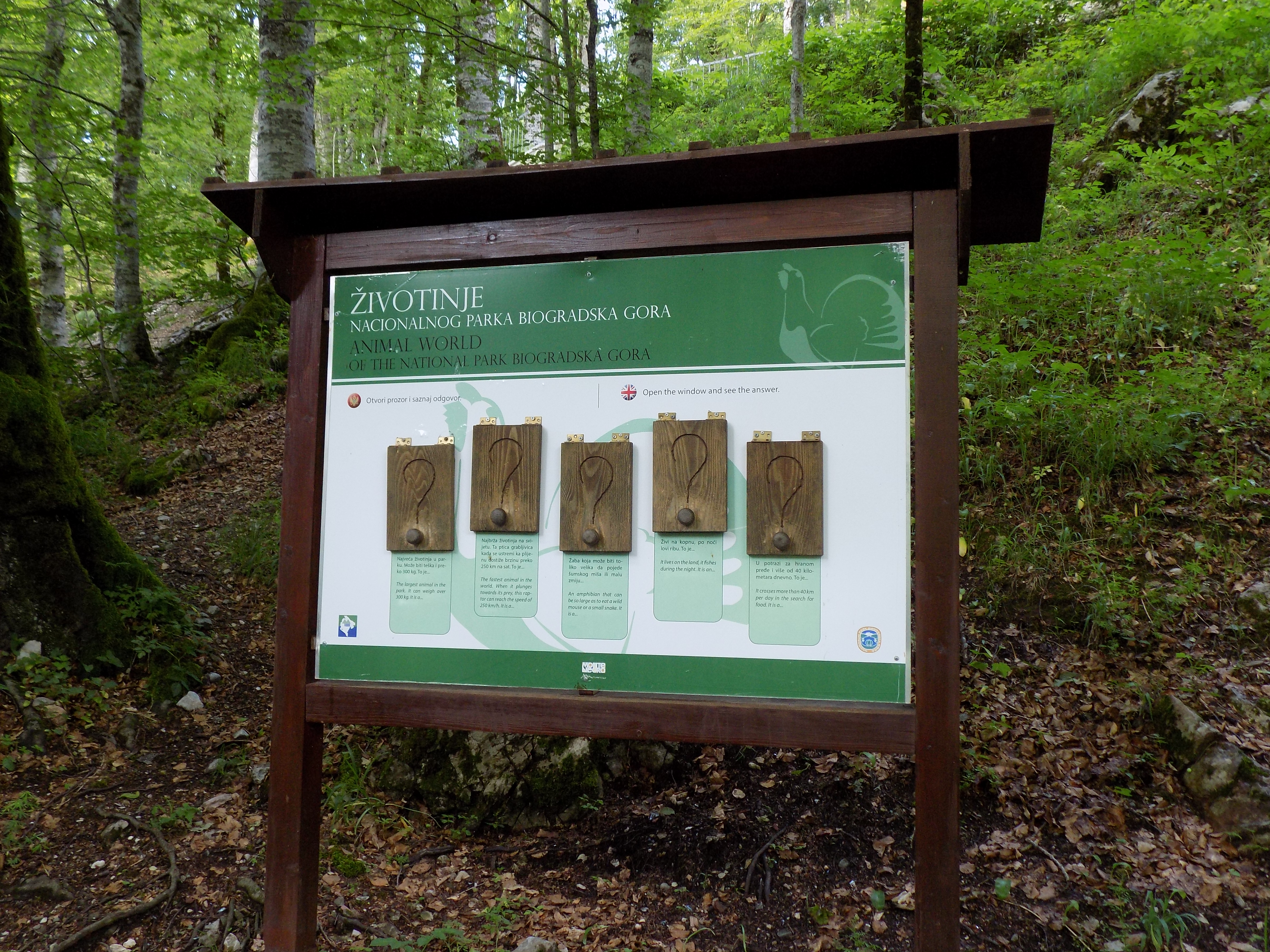 Biogradska Gora National park, the oldest protected natural resource in Montenegro